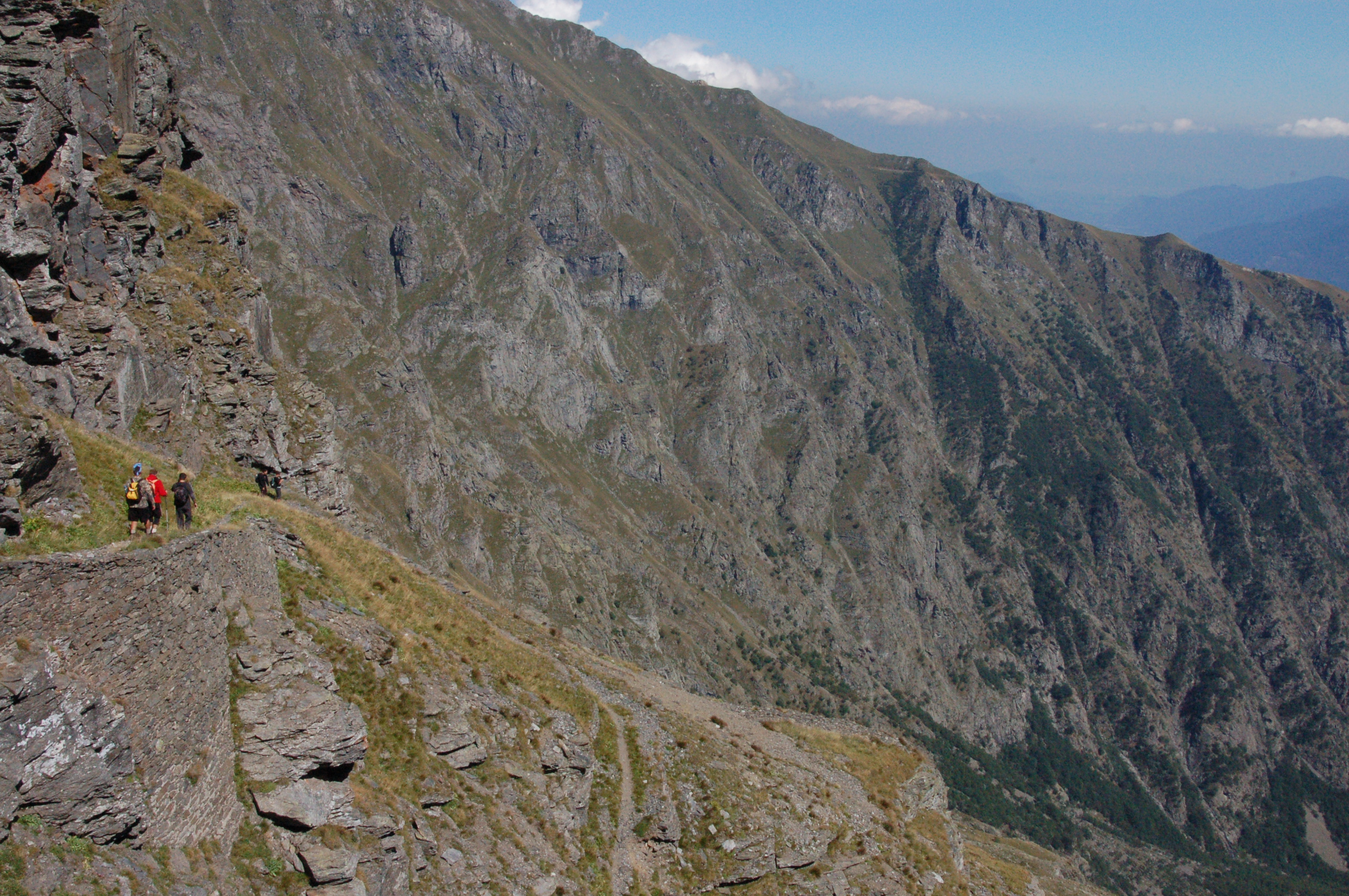 Col du Clapier, Alps. Photo taken as part of field work on the Stanford Alpine Archeology Project 2006 under the direction of Dr. Patrick Hunt.